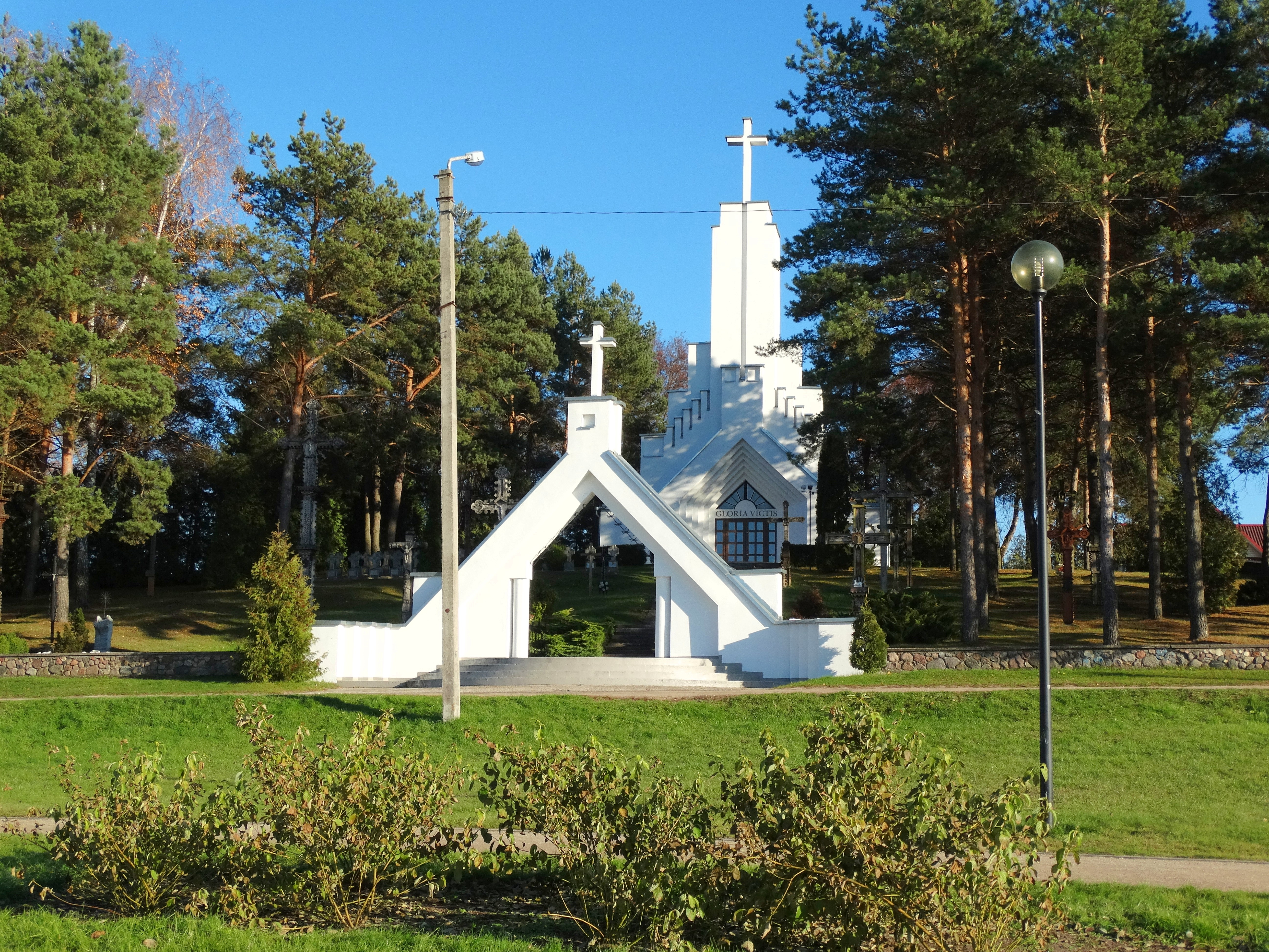 Chapel of St. Virgin Mary, Queen of Martyrs, Utena, Lithuania